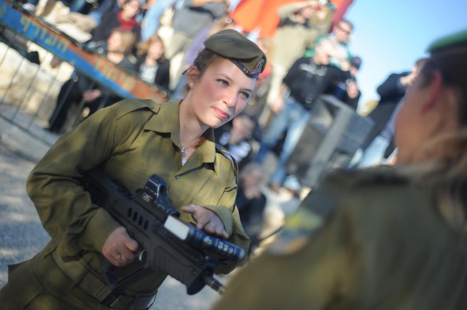 Swearing an oath to the IDF. Photos by Noa City-Eliyahu, Bamahane The Israel Defense Forces Facebook • blog • Twitter